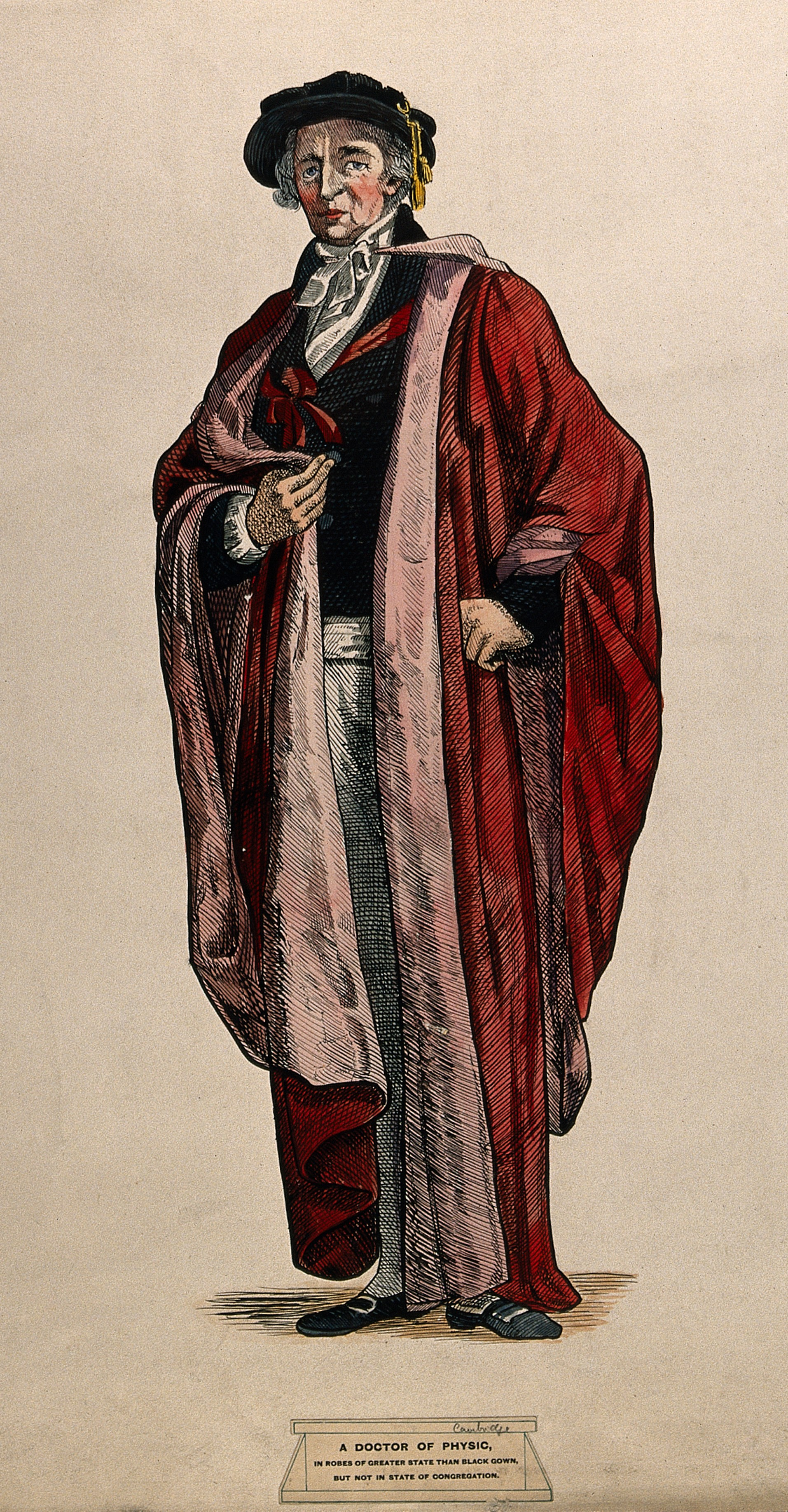 Sir Isaac Pennington in his ceremonial robes as doctor of physic at Cambridge. Coloured pen drawing. Iconographic Collections Keywords: Isaac Pennington